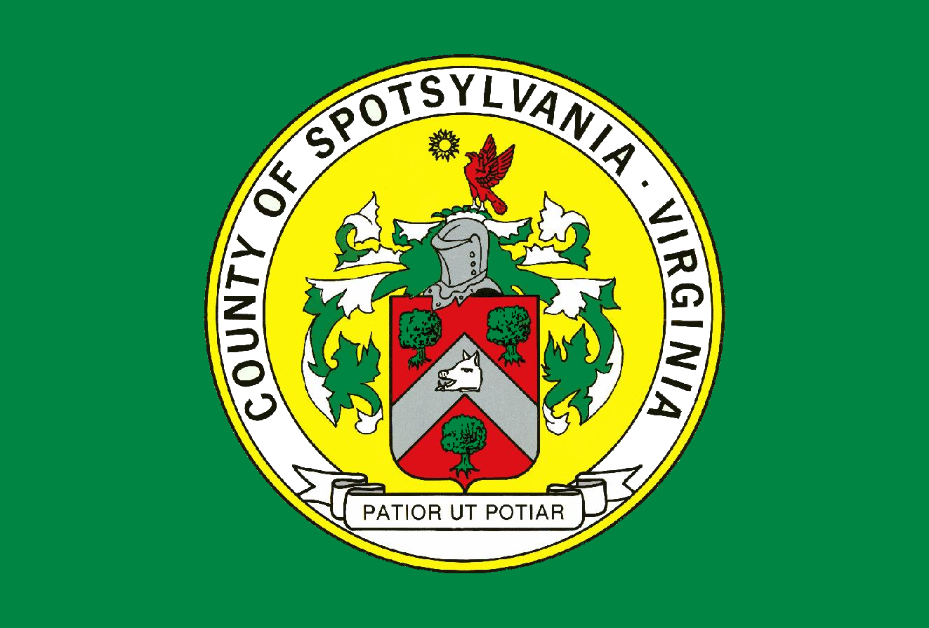 Flag of Spotsylvania County, Virginia